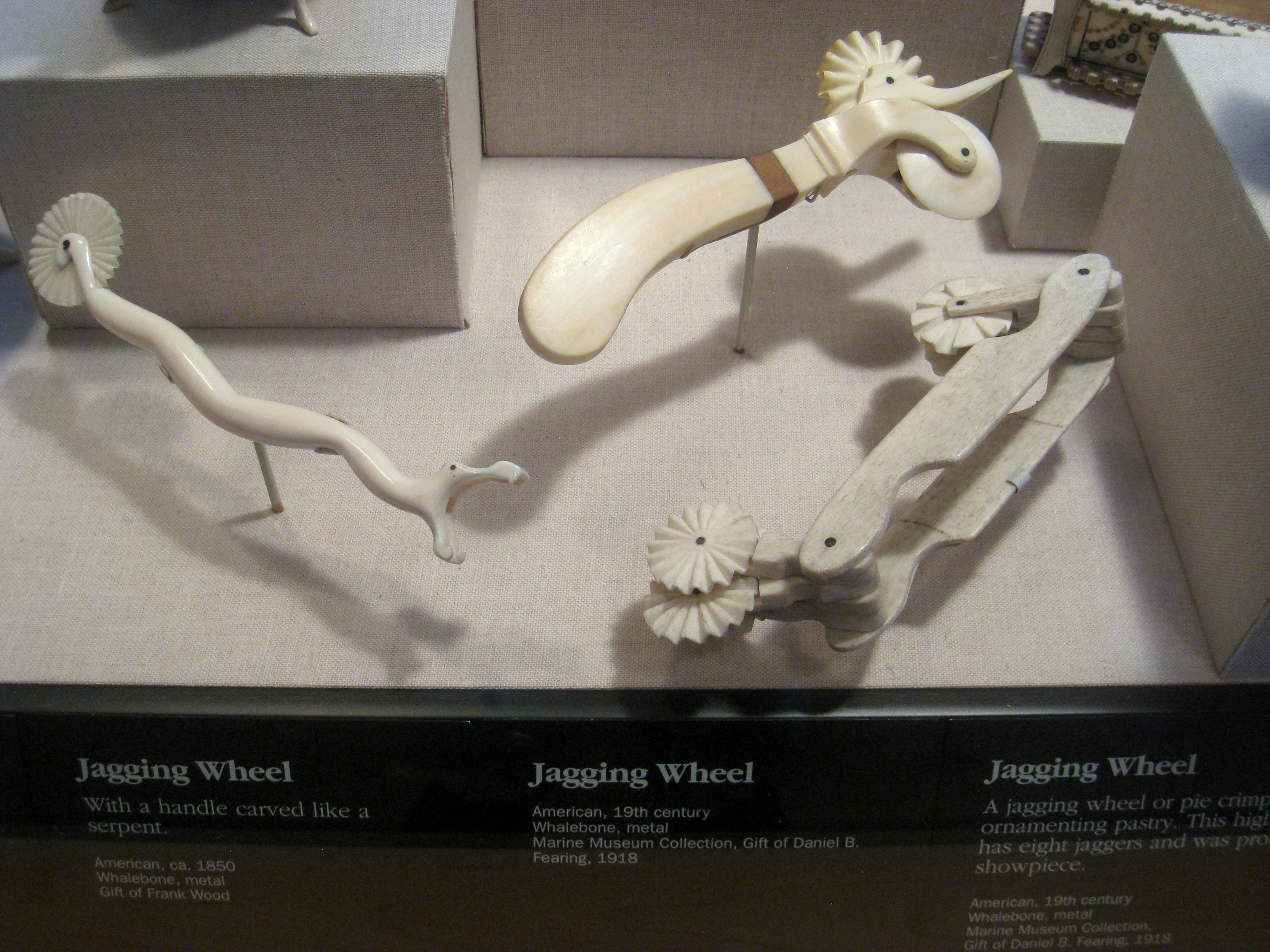 Jagging wheels made of whalebone, mid 1800s - Old State House Museum, Boston, Massachusetts, USA.